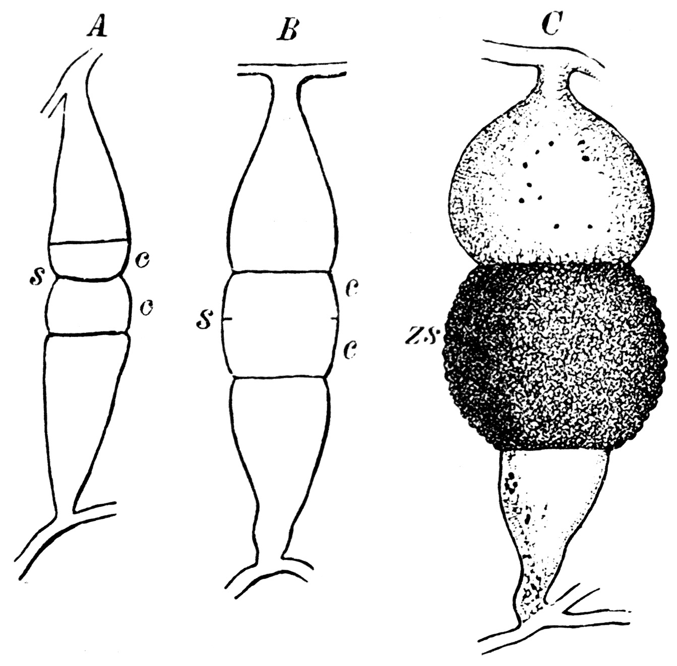 Zygospore (Mucor stolonifer), Otto's Encyclopedia (1897).